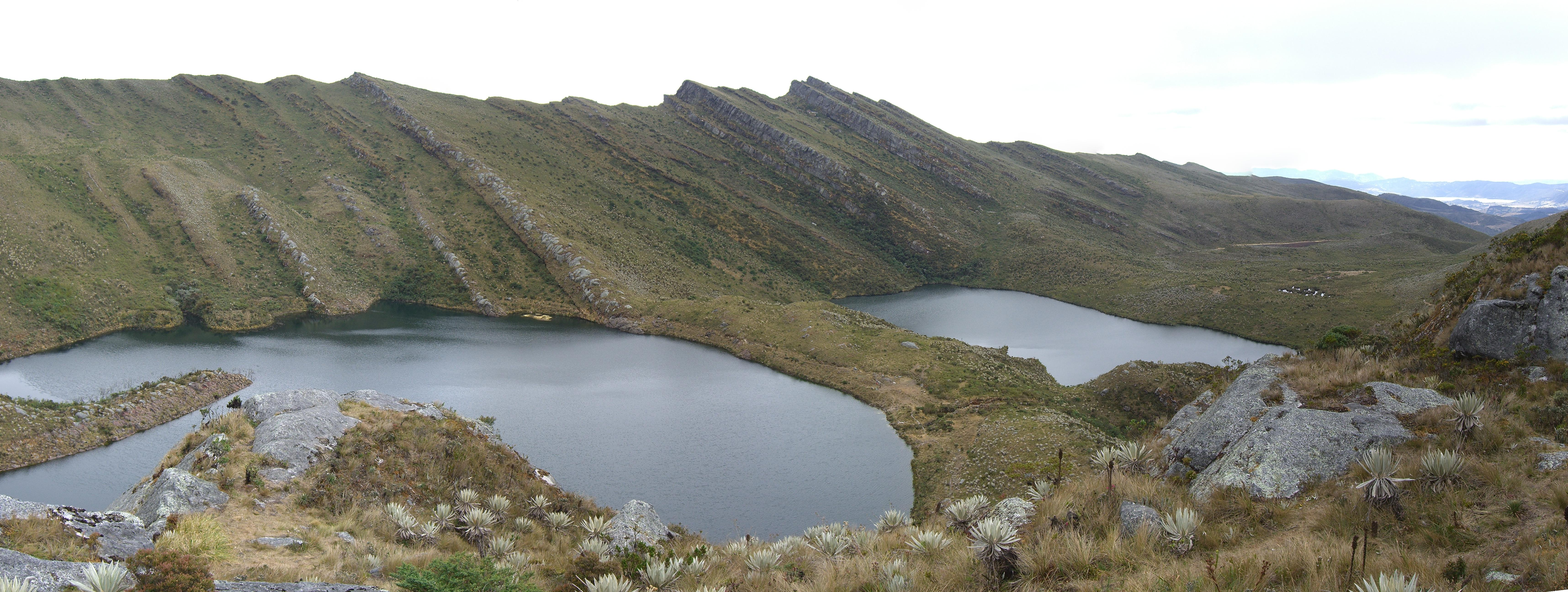 The Lagunas de Siecha. Front: Laguna de Siecha, Middle: Laguna de Guasca, Back:Laguna de los Patos